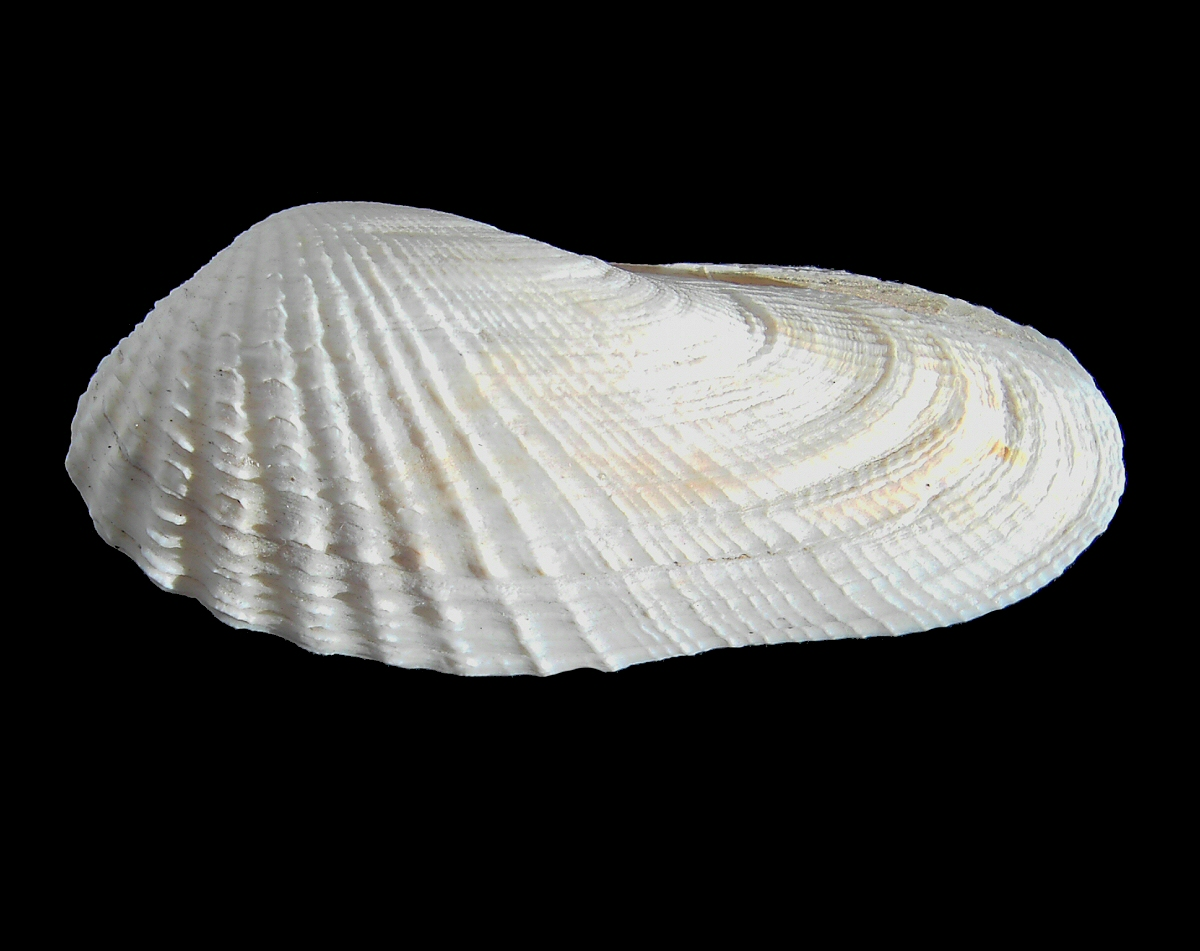 American piddock on board of the RV Belgica (lab photograph).